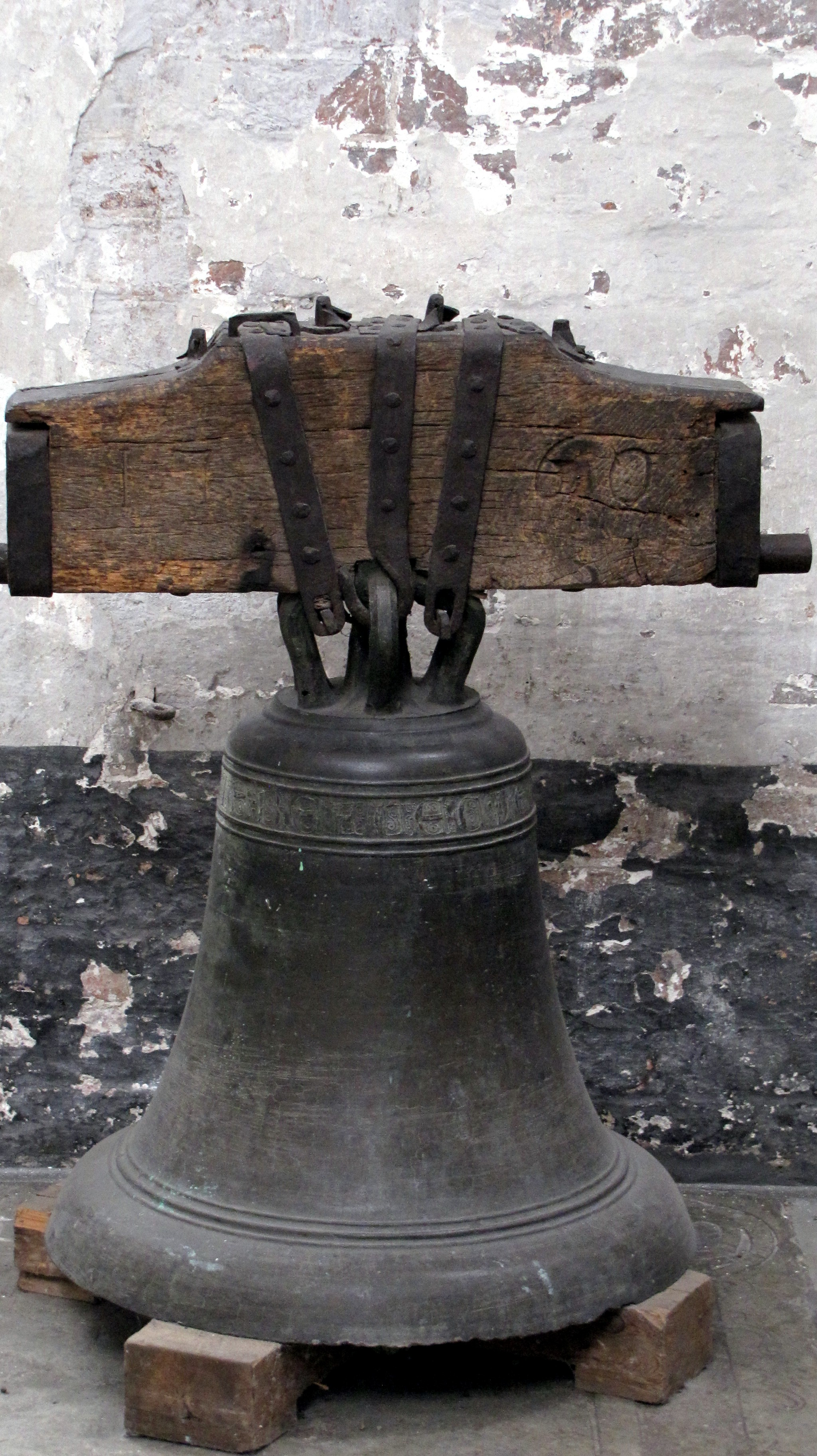 Bell of former Clemenskirche, Lübeck, today in Katharinenkirche, Lübeck, 1330/40